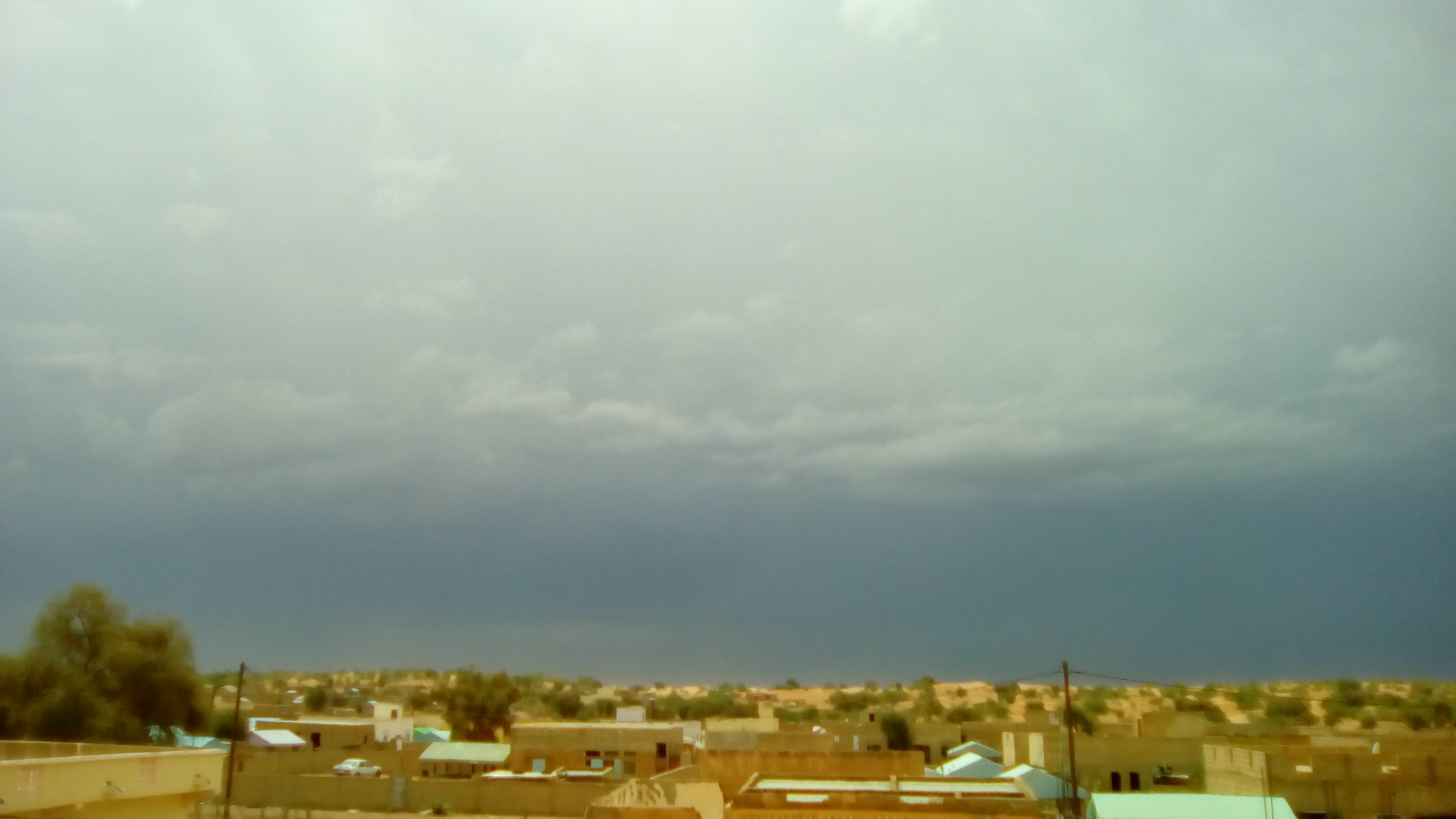 Mal (Mauritania)